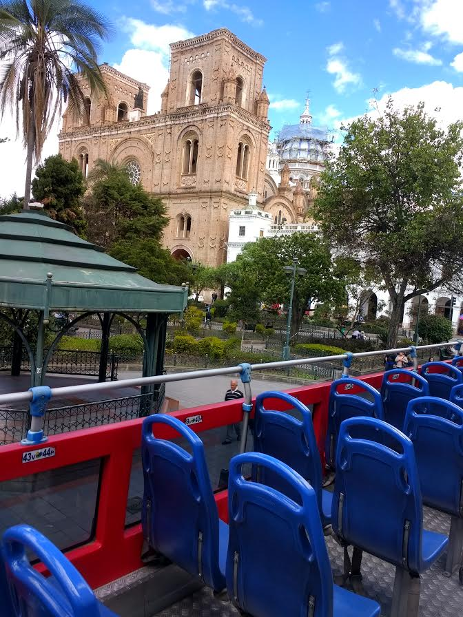 Cuenca Ecuador..pic 3.5 Tour Bus, South America Andes Mountains.